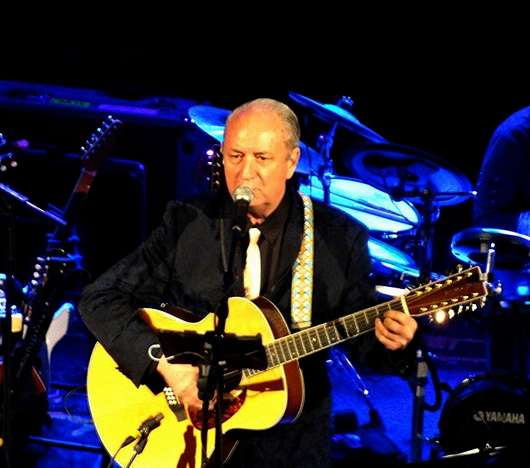 Michael Nesmith, singer-songwriter and music video pioneer, performed at The Somerville Theater, near Boston, Mass. on April 13, 2013.